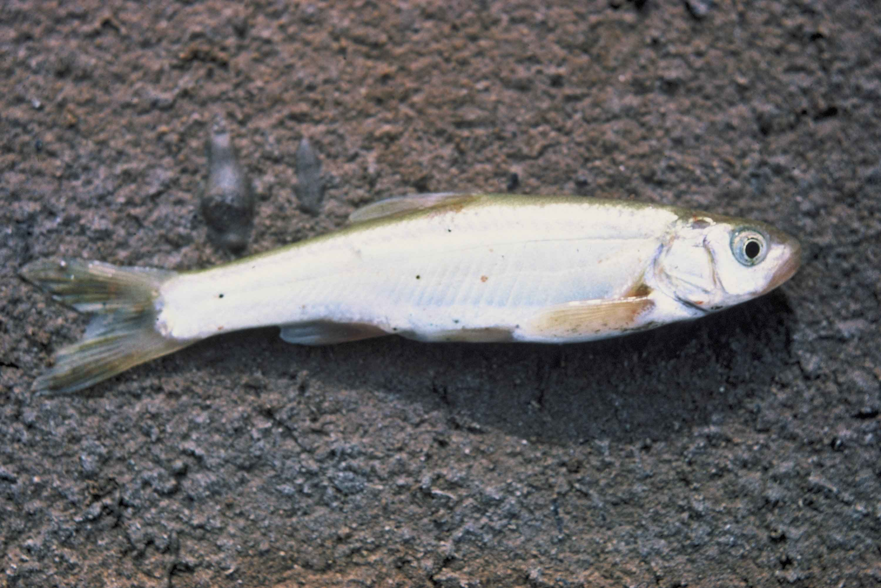 Image title: Virginia river spinedace fish lepidomeda mollispinis mollispinis Image from Public domain images website